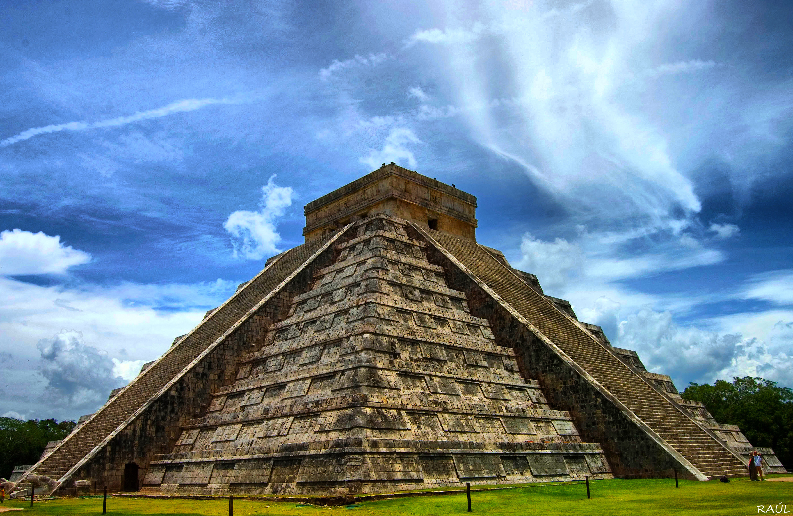 El Castillo (Pyramide des Kukulcán) in Chichén Itzá